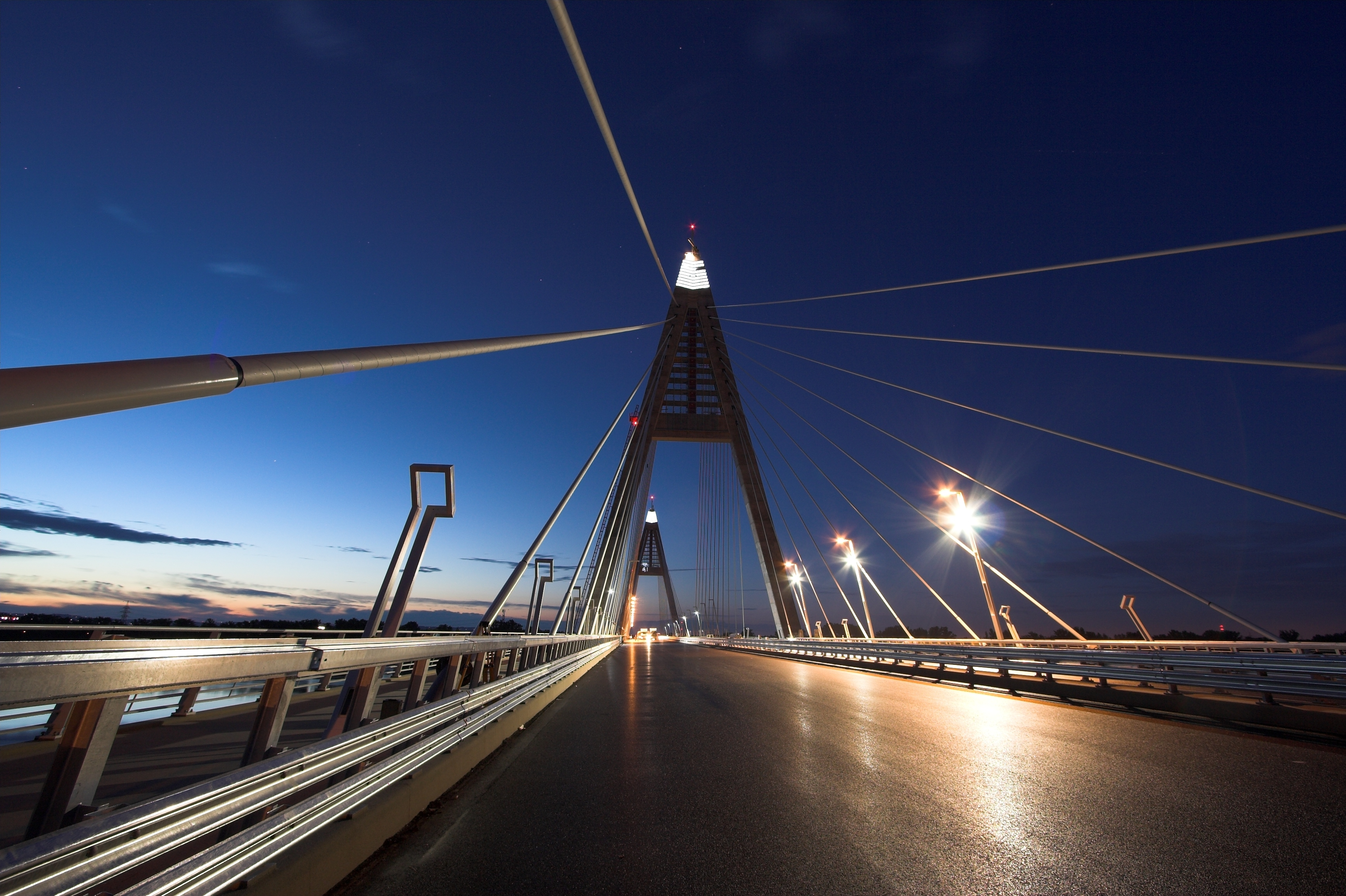 Megyeri bridge at dawn (before its planned opening), Budapest, Hungary